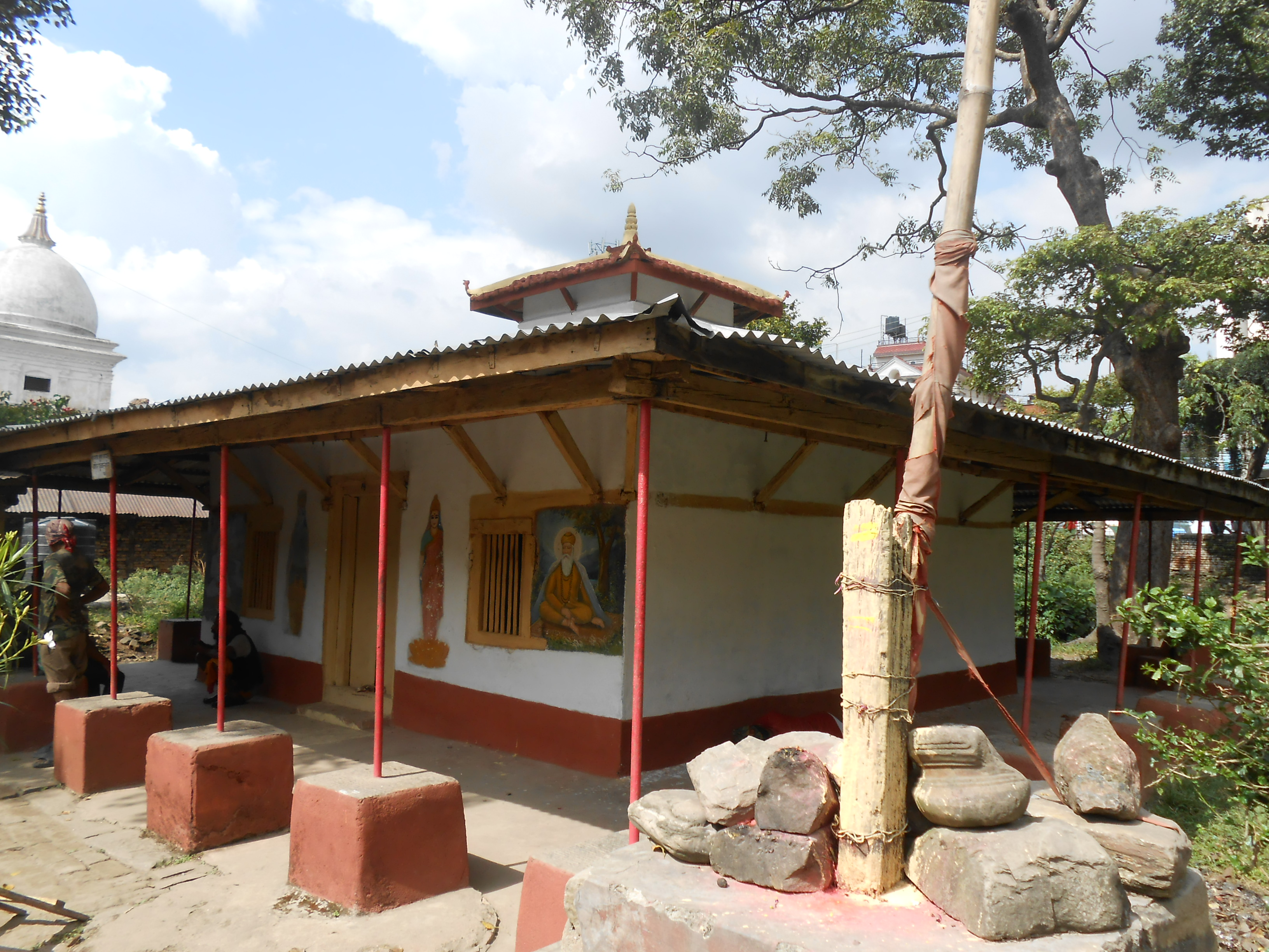 Udashi Akhada